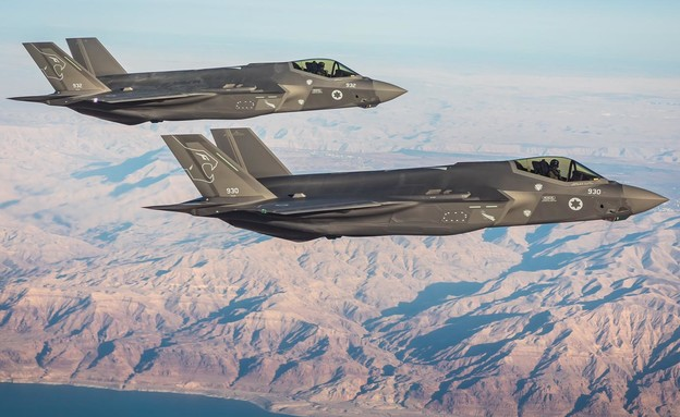 IDF’s new stealth squadron. “The Southern Lions”.